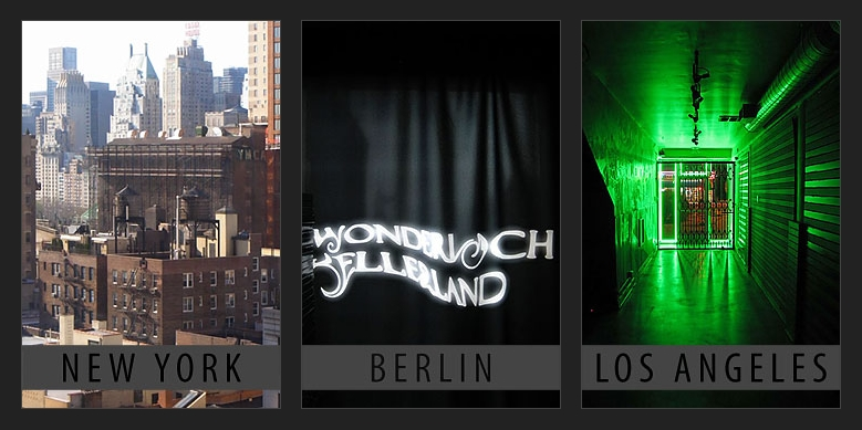 Art gallery Berlin New York Los Angeles